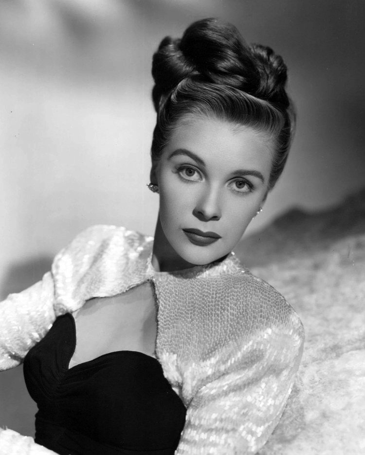 Publicity photo of actress Mary Stuart.